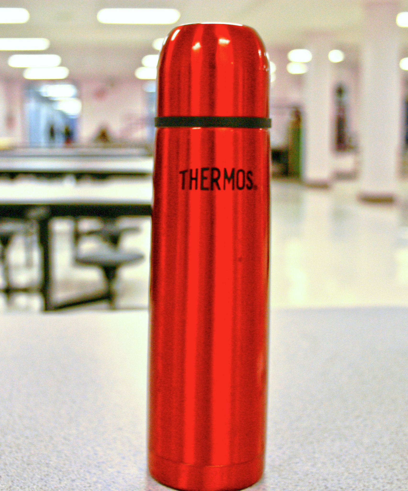 A picture of a Thermos brand Vacuum flask